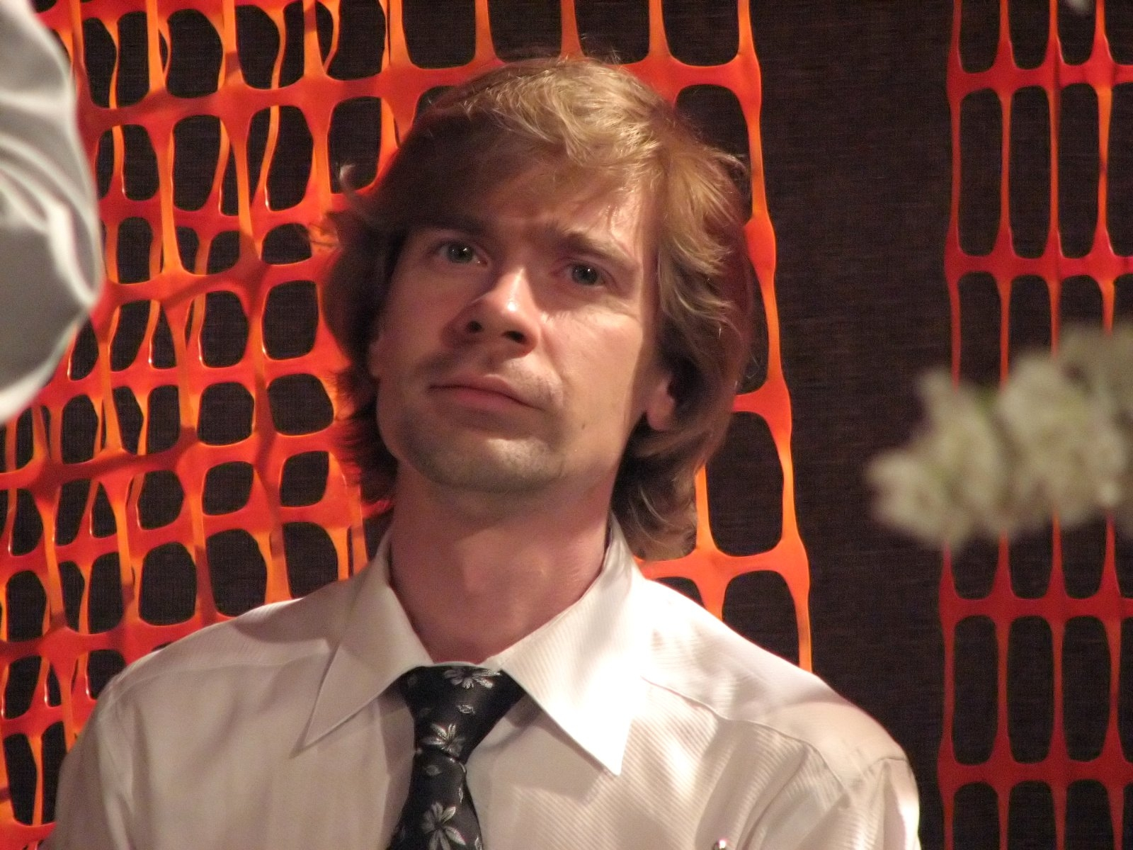 Ahto Abner performing in literary festival HeadRead